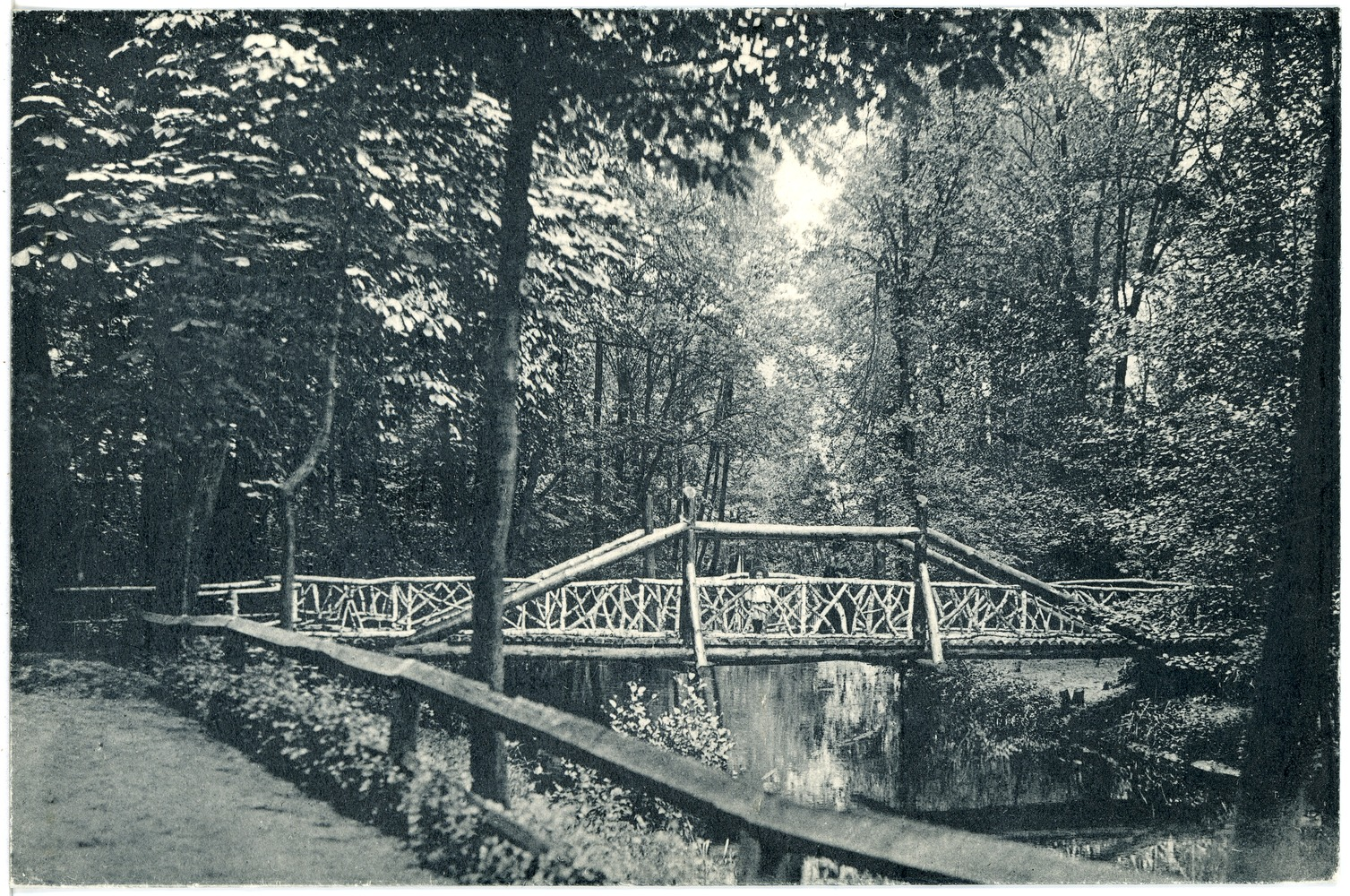 This postcard is from publisher Brück & Sohn in Meißen ( This postcard has a unique number 16575 and is available in a higher resolution at the publisher. This images was uploaded in a cooperation project between Wikipedians and the publisher.